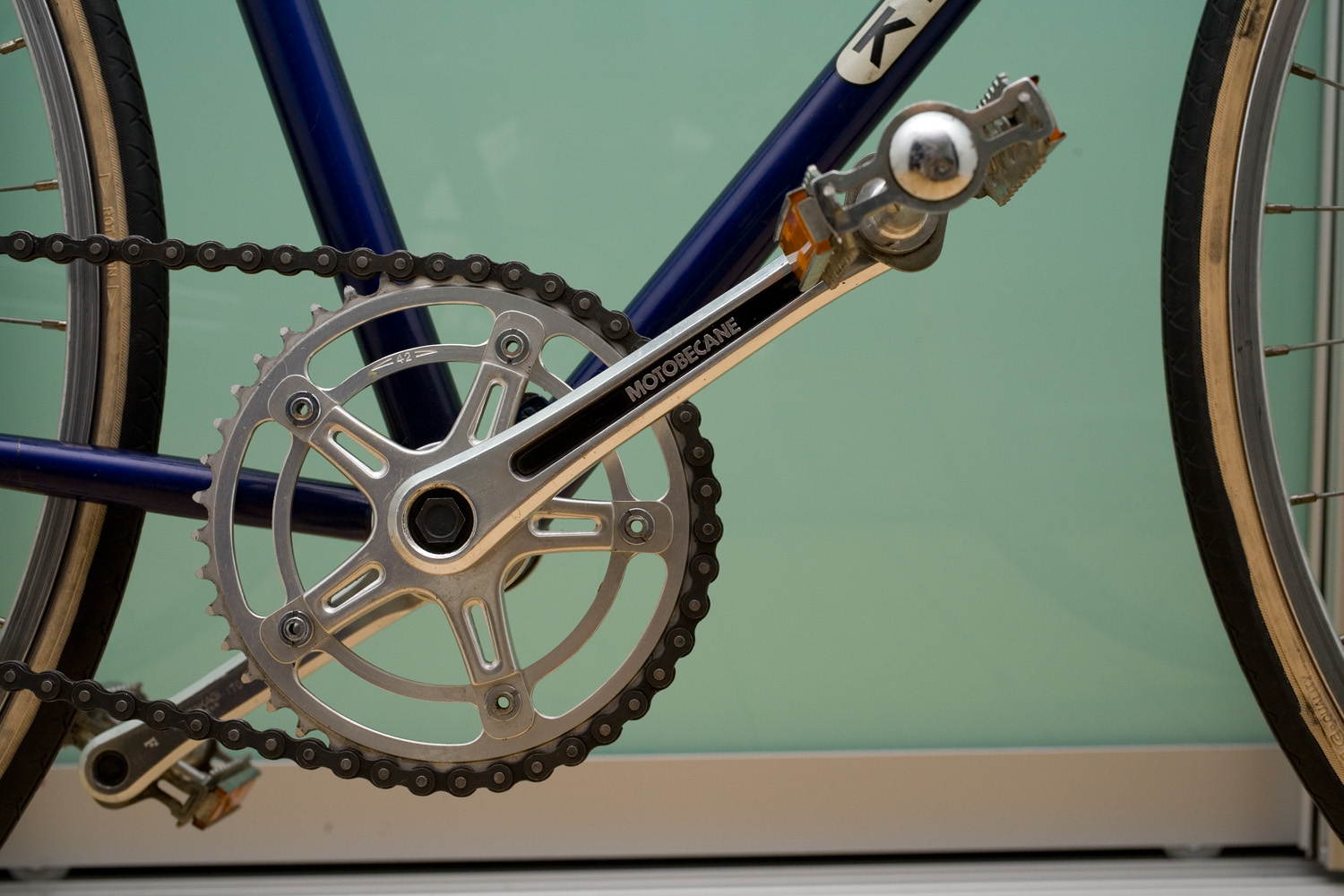 Singlespeed Crankset